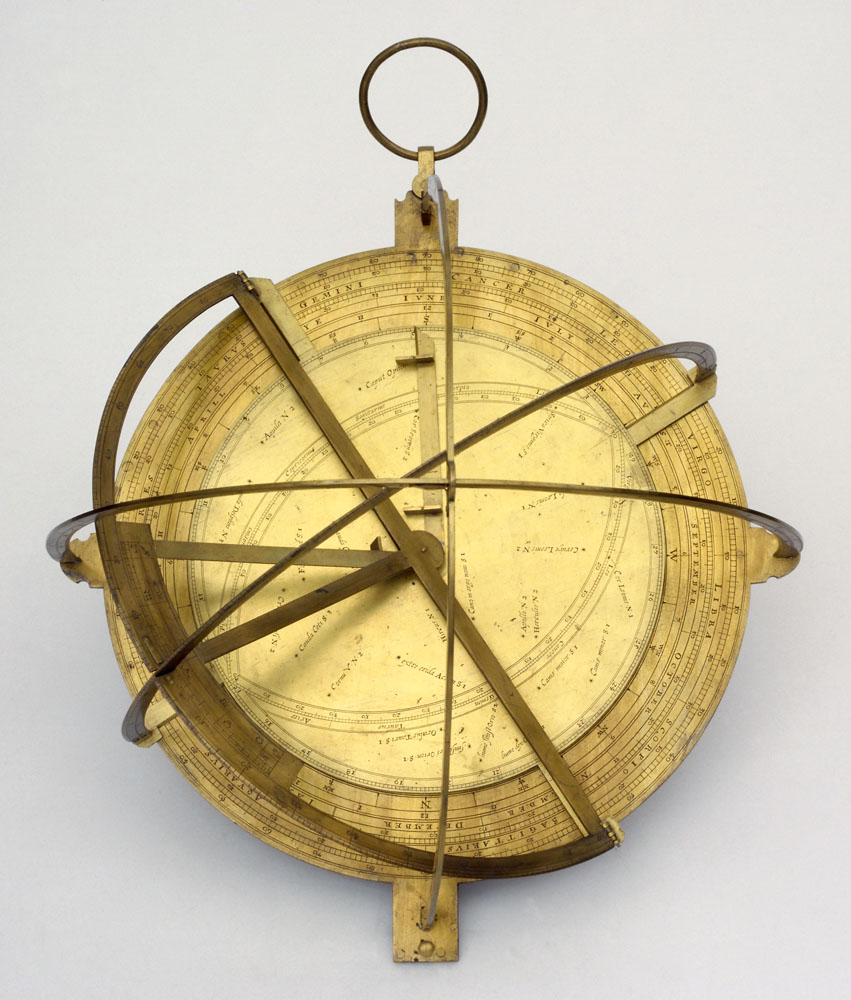 ArtistCharles WhitwellAuthorMichel CoignetDescription